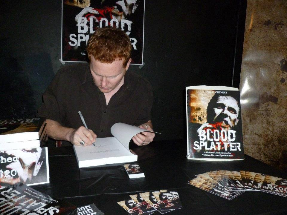 Photograph of author Craig W. Chenery at a book signing.